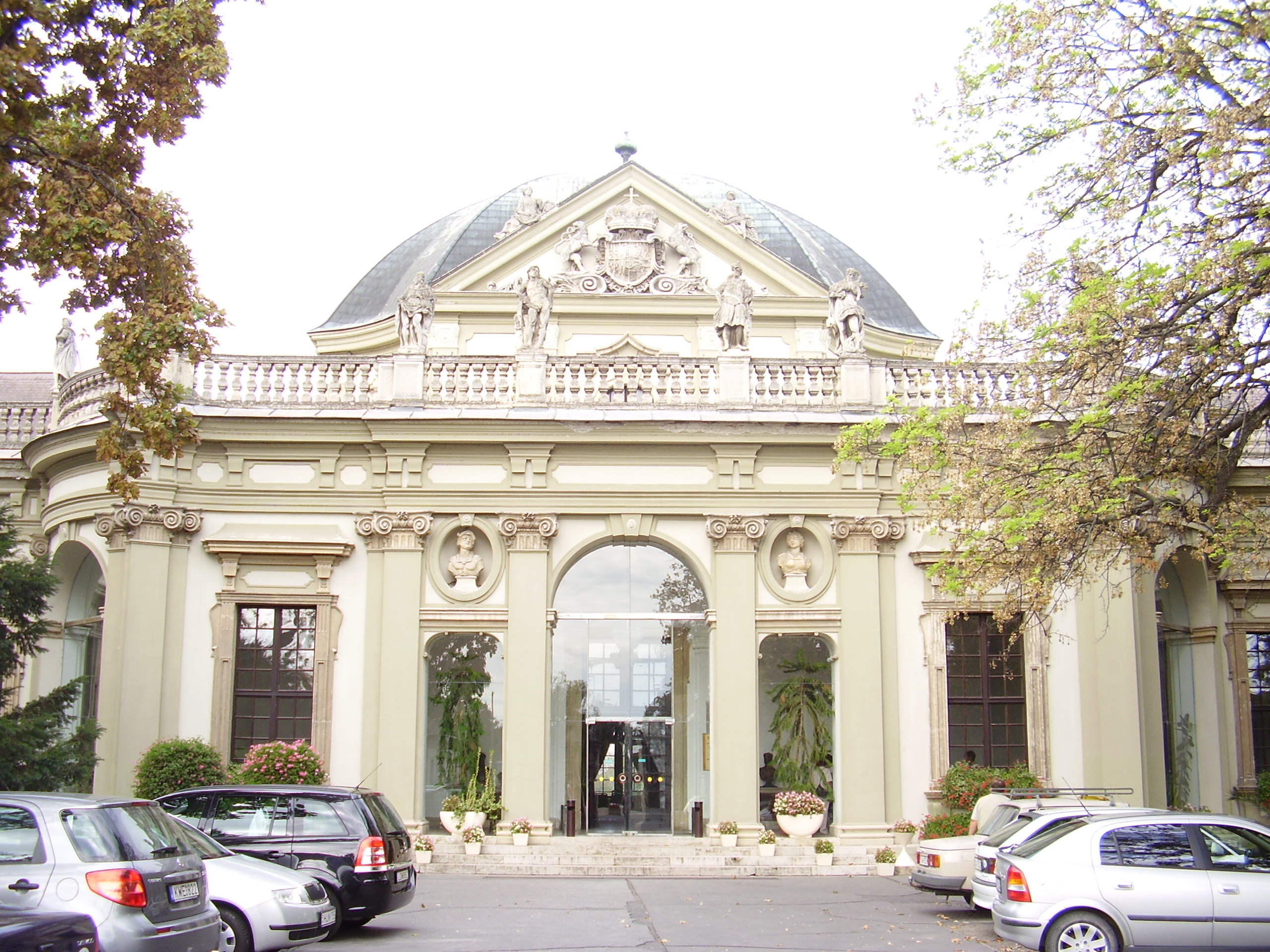 Savoyai-castle, Ráckeve; Hungary. Now it is a castle hotel.